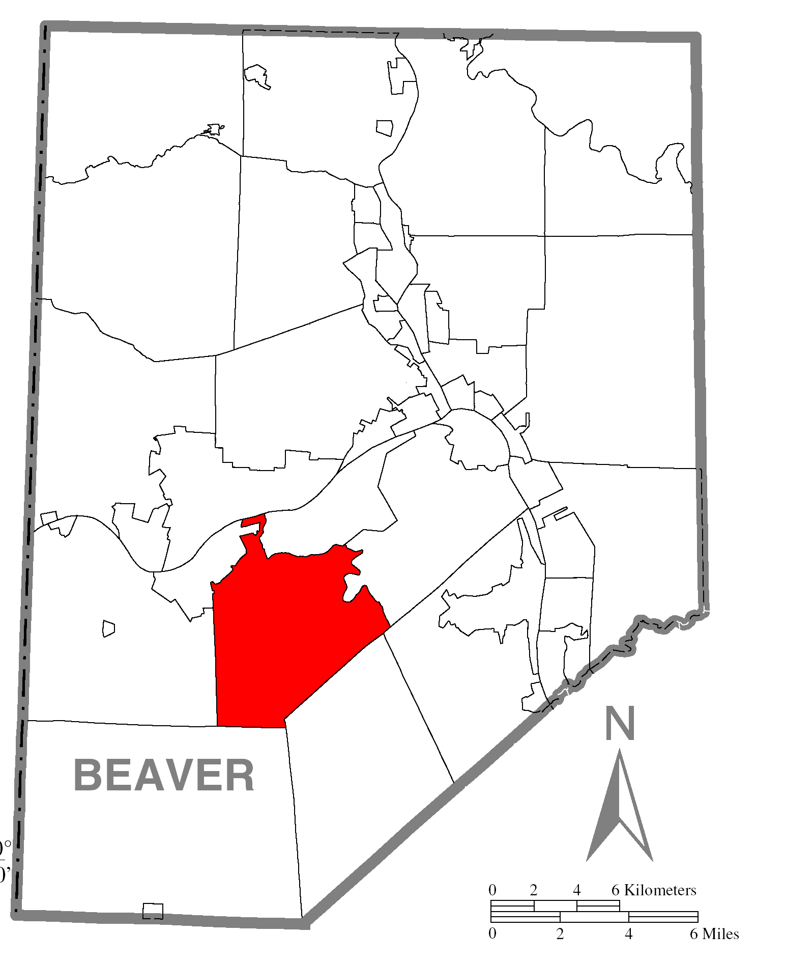 A map of Beaver County showing Raccoon Township, Pennsylvania (alternate) highlighted on the map.